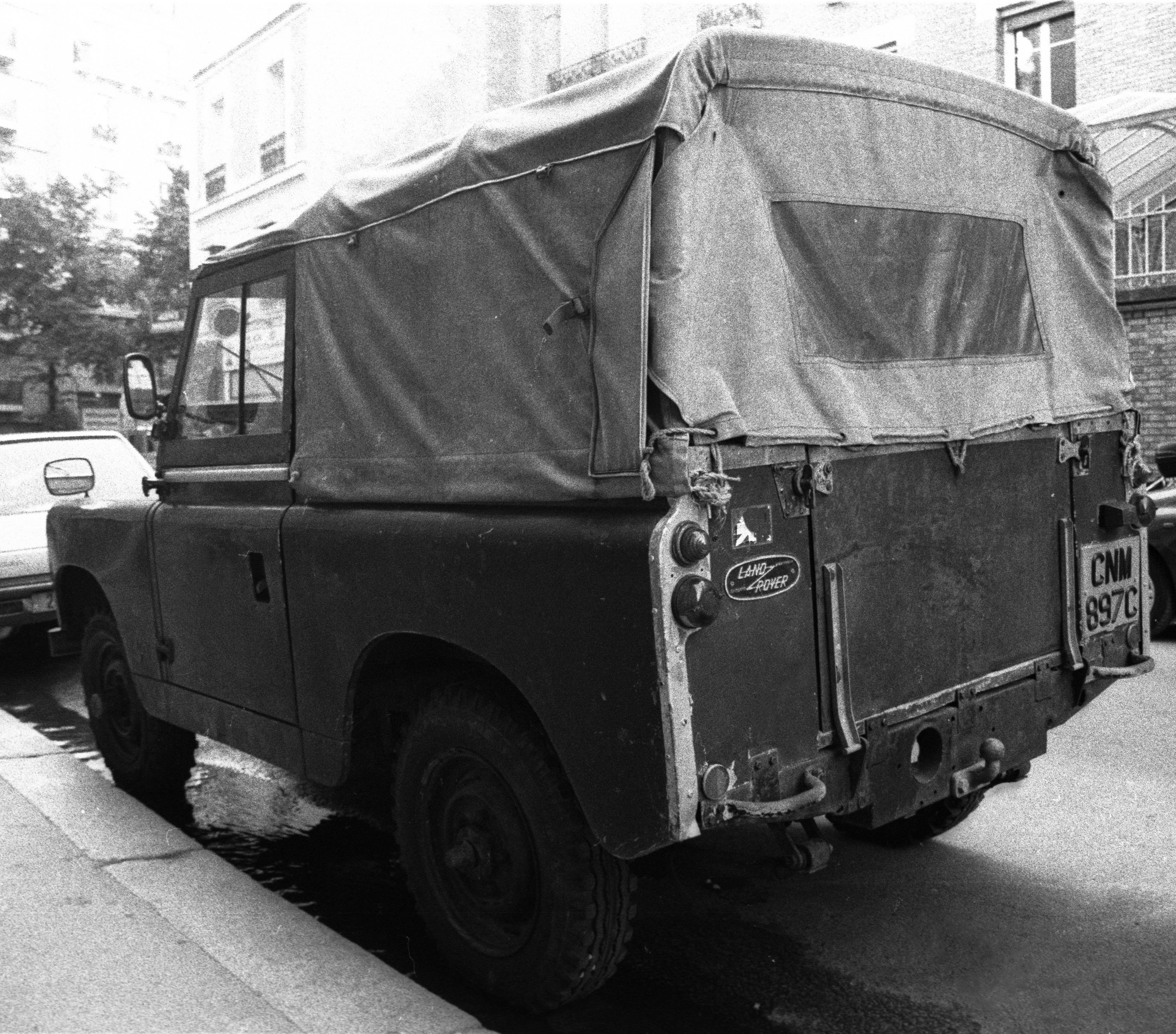 A Land Rover Series II in a street of Paris. Author : Cyril B.